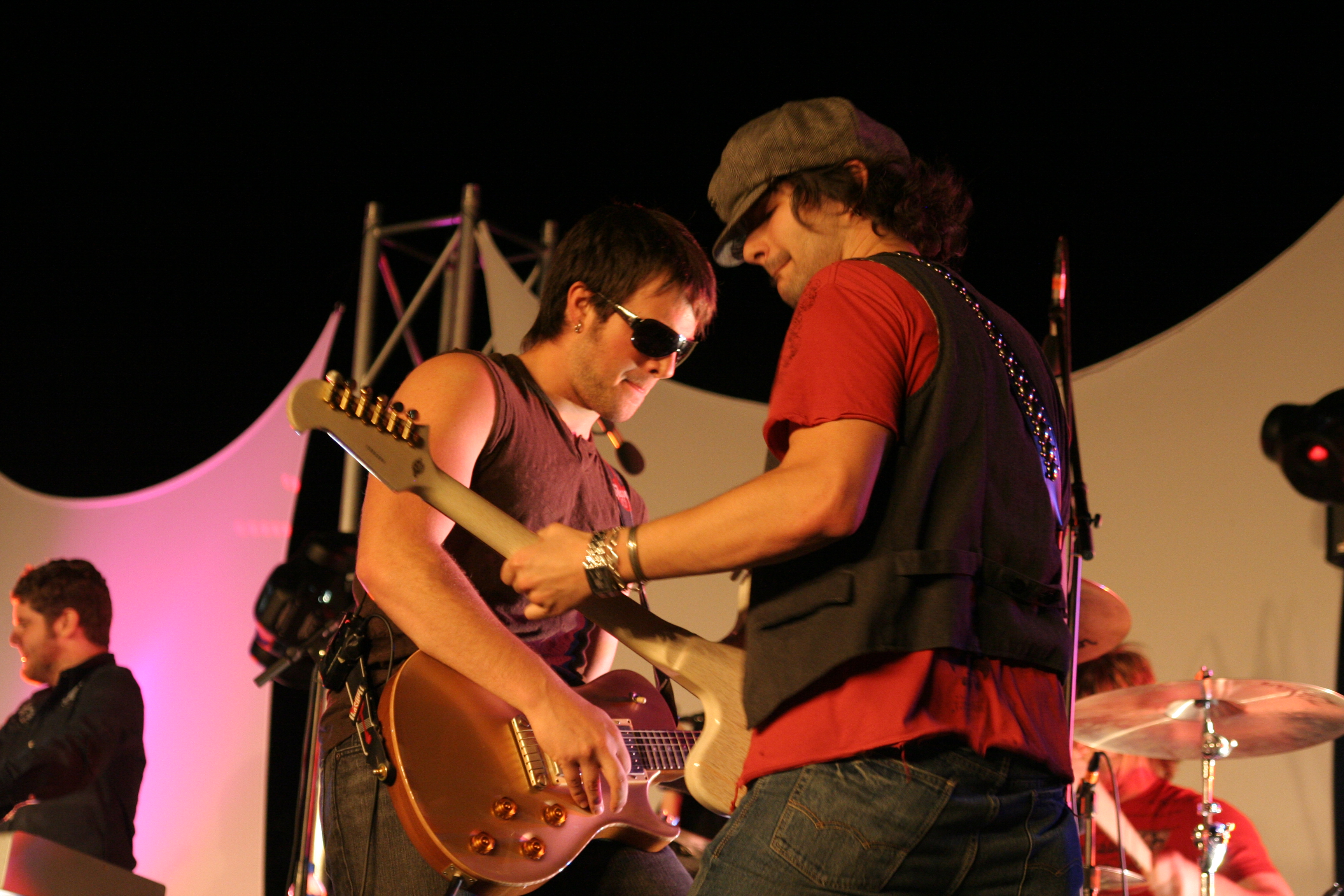 Eric Miker and Brian Bunn of DecembeRadio at Southeastern University in Lakeland, Florida, on January 9, 2008. In the background are drummer Boone Daughdrill and touring keyboardist Josh Lovelace.